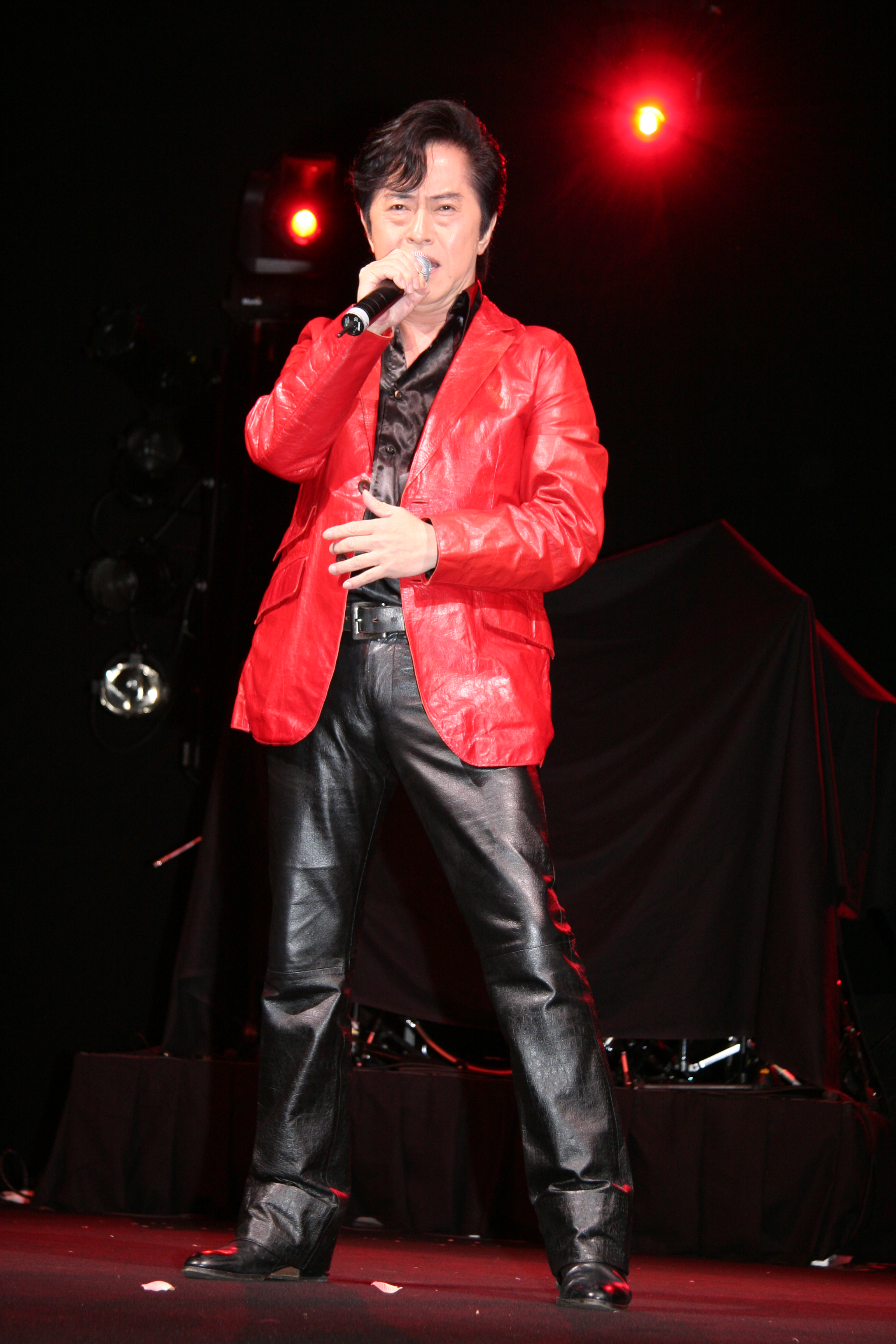 Ichiro Mizuki live at Japan Expo 2007 (Paris, France).